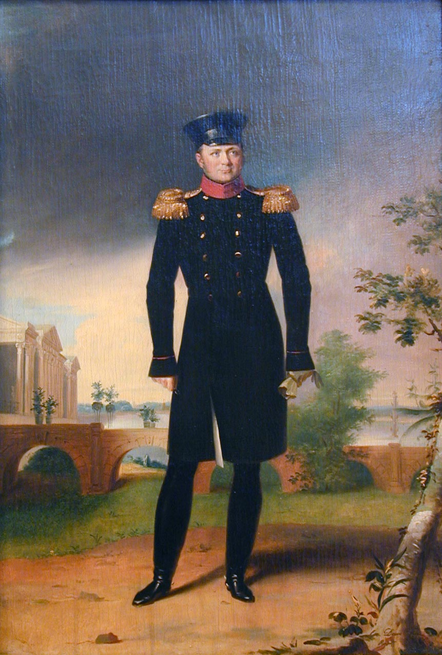 Portrait of Emperor Alexander I against the Cameron Gallery in official uniform